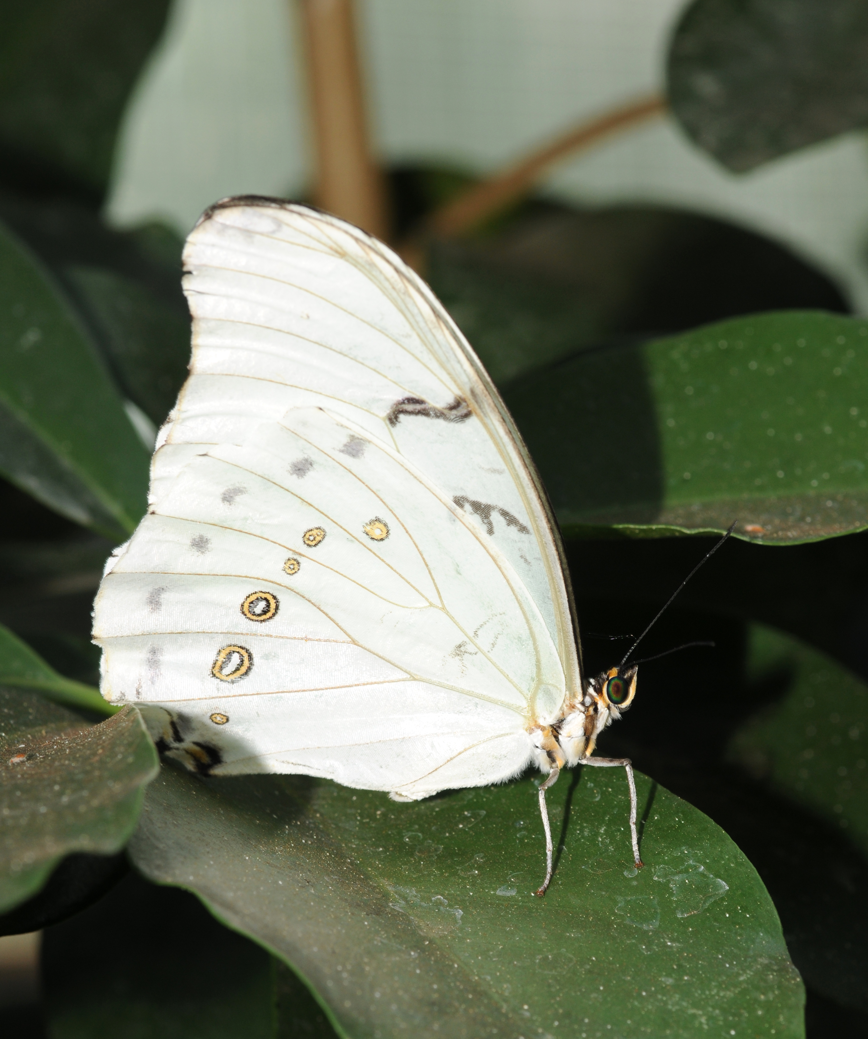 This photograph was taken with a Nikon D300 Lépidoptère. Jardin des papillons (Hunawihr).